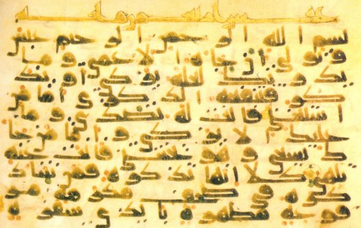 A Qur'anic manuscript written in the Madani script (خط مدني). Verses 1-15 of Surat 'Abasa.